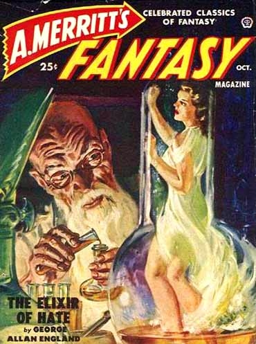 Cover of the October 1950 issue of A. Merritt's Fantasy Magazine. Cover art is by Norman Saunders.